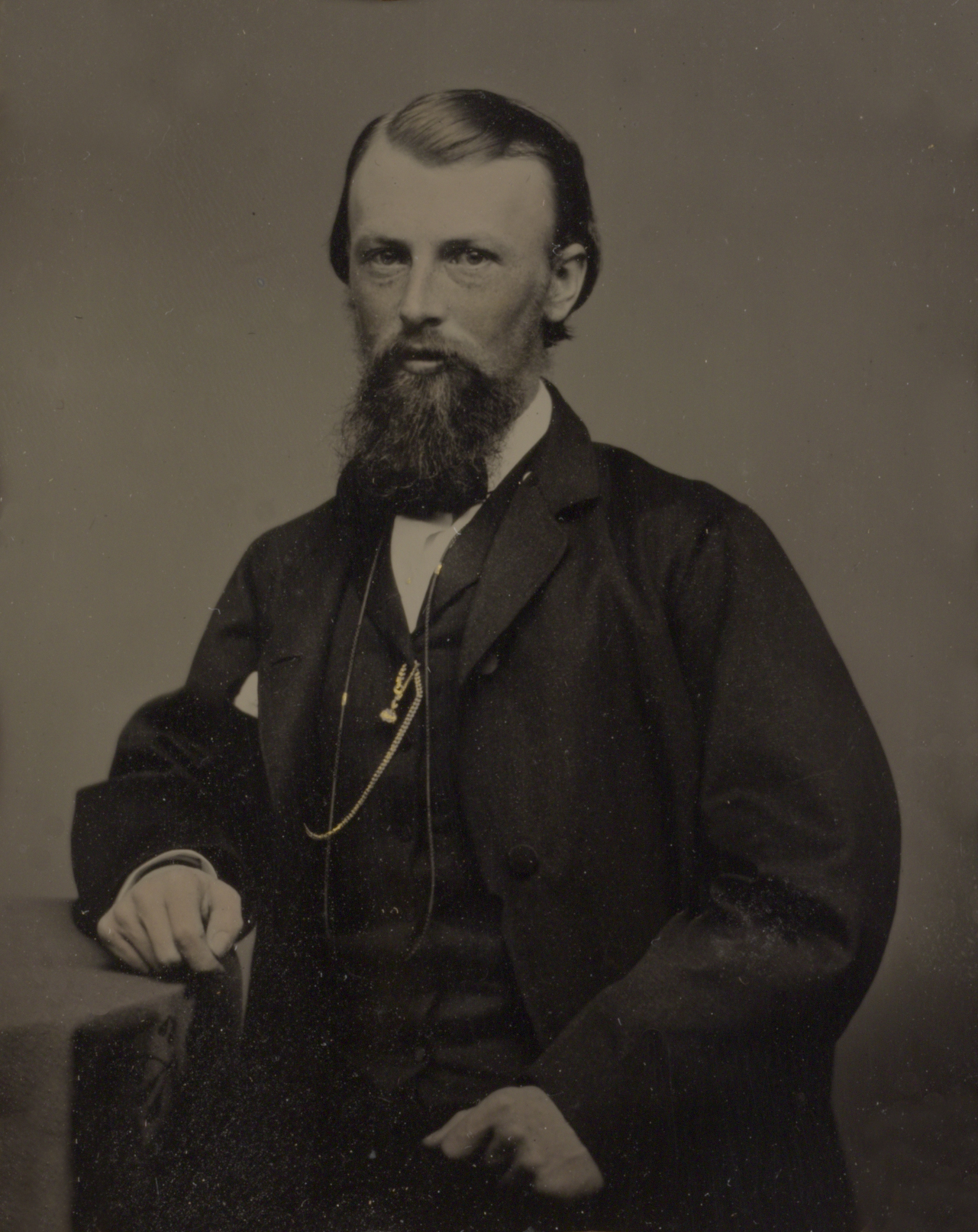 Photograph of William John Wills.